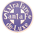 "Drumhead" logo from the ATSF de Luxe.